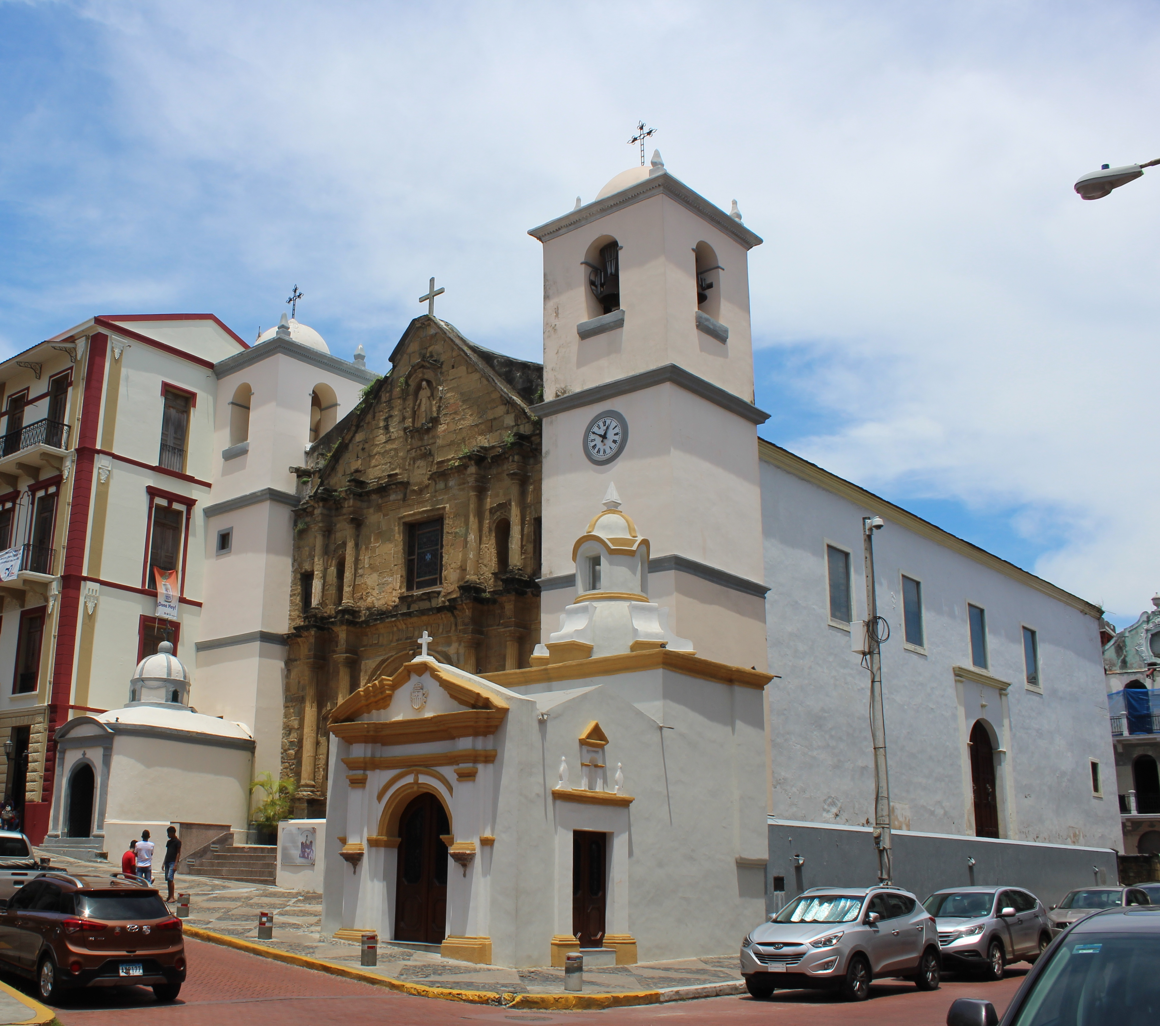 Iglesia de la Merced. Colonial church in San Felipe, Panamá City. Аҧсшәа: Iglesia de la Merced. Iglesia Colonial en San Felipe, Ciudad de Panamá.